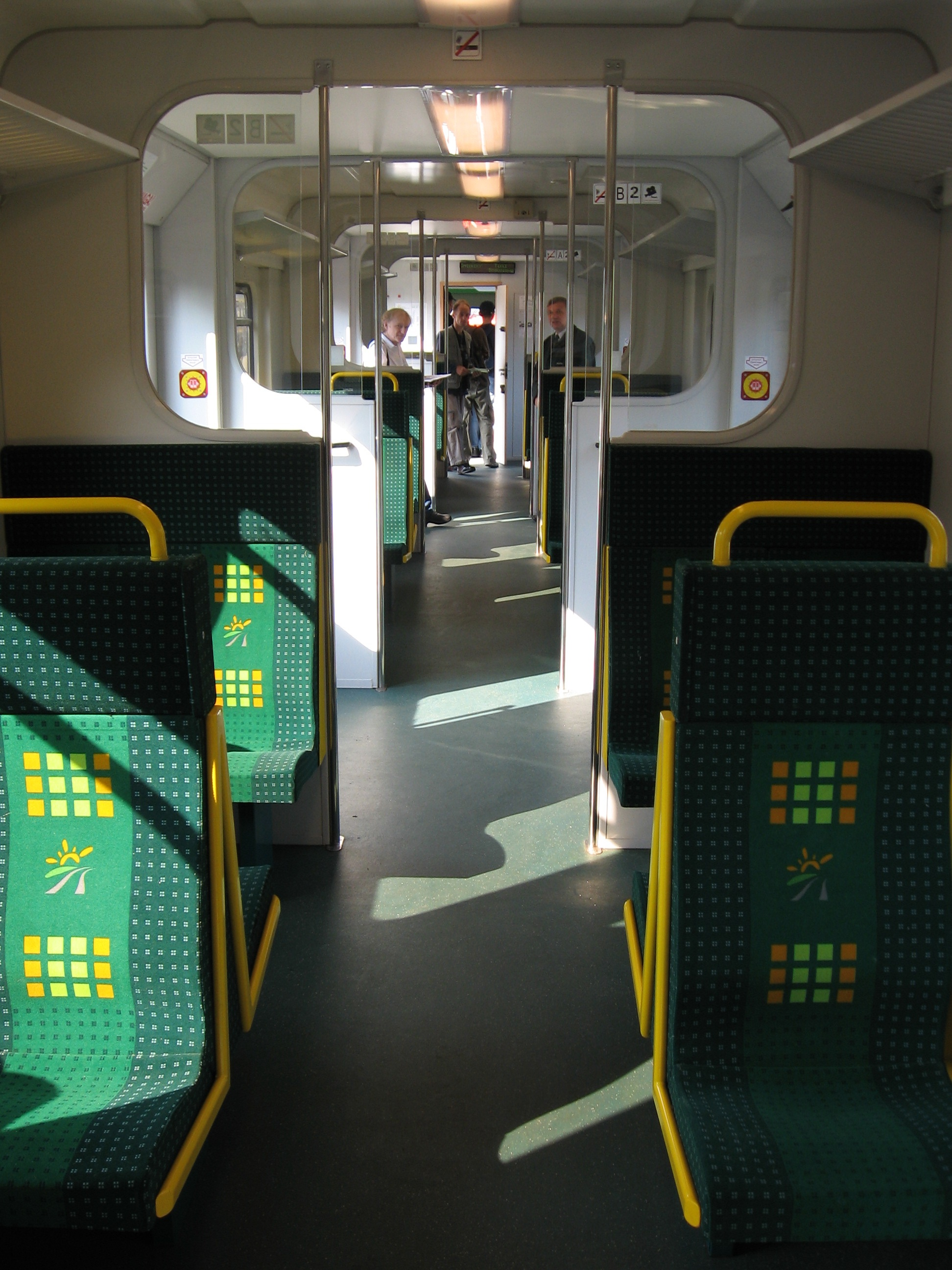 Polish electric multiple unit EW60 – inside view.